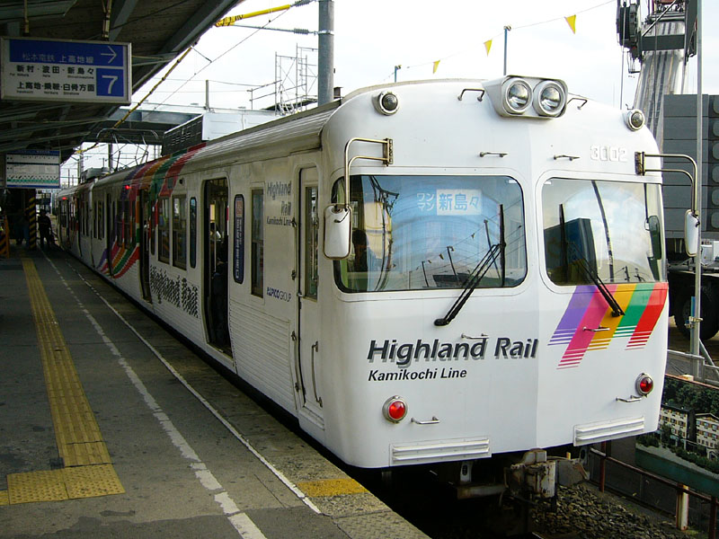 A Matsumoto Electric Railway 3000 series EMU at Matsumoto Station in Matsumoto, Nagano prefecture, Japan